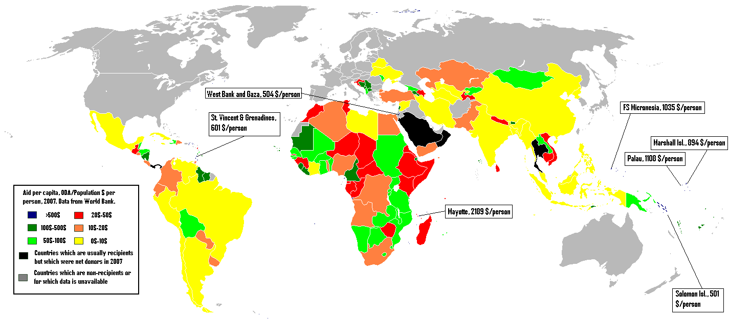 Aid per capita in 2007